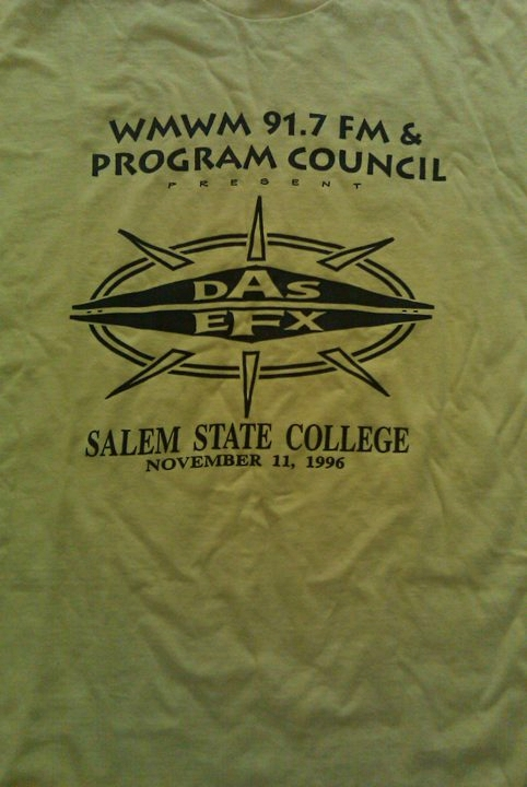 T-shirt from DAS-EFX concert planned and promoted by WMWM staff and the Program Council